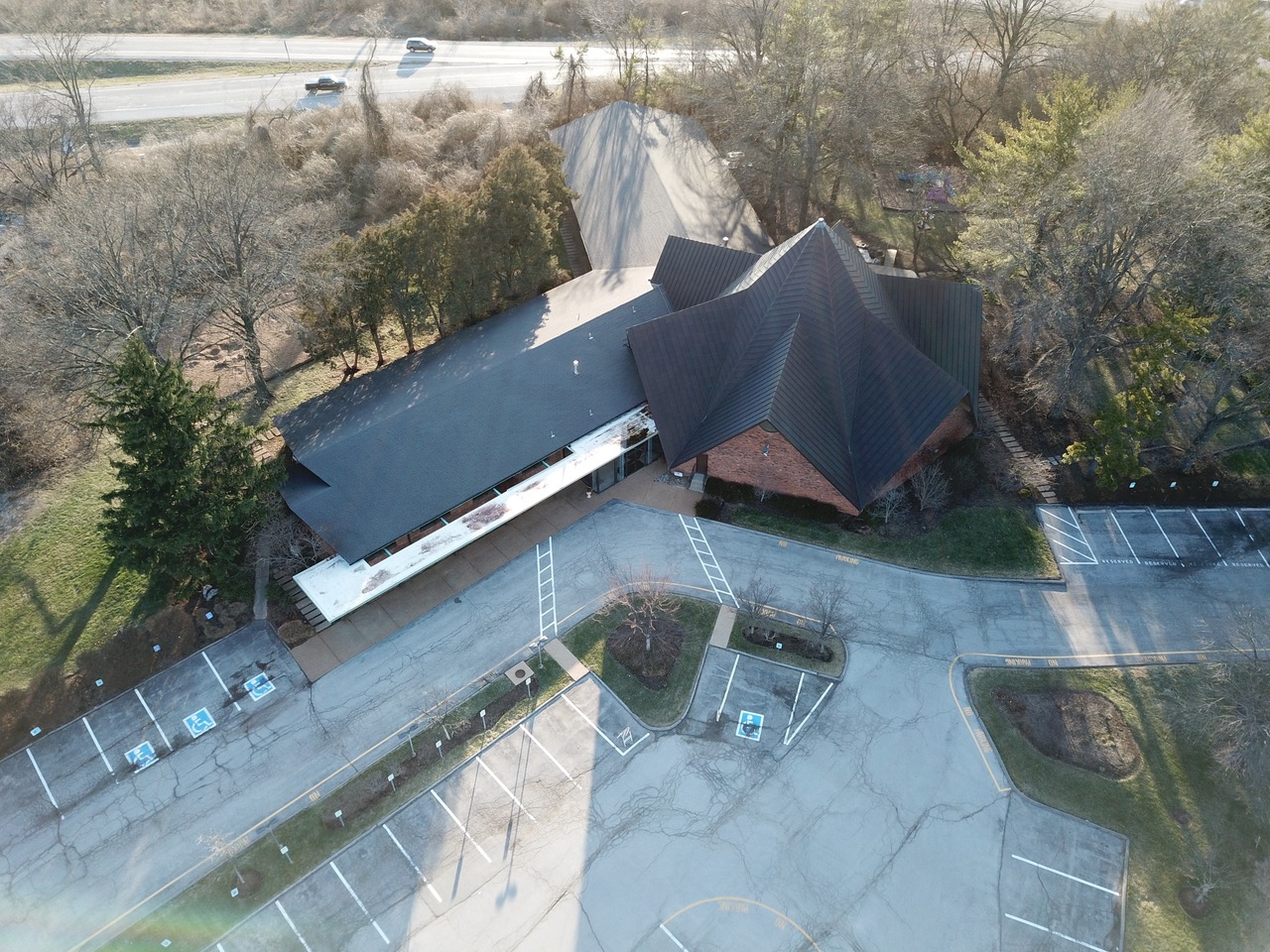 Temple Emanuel, 2018